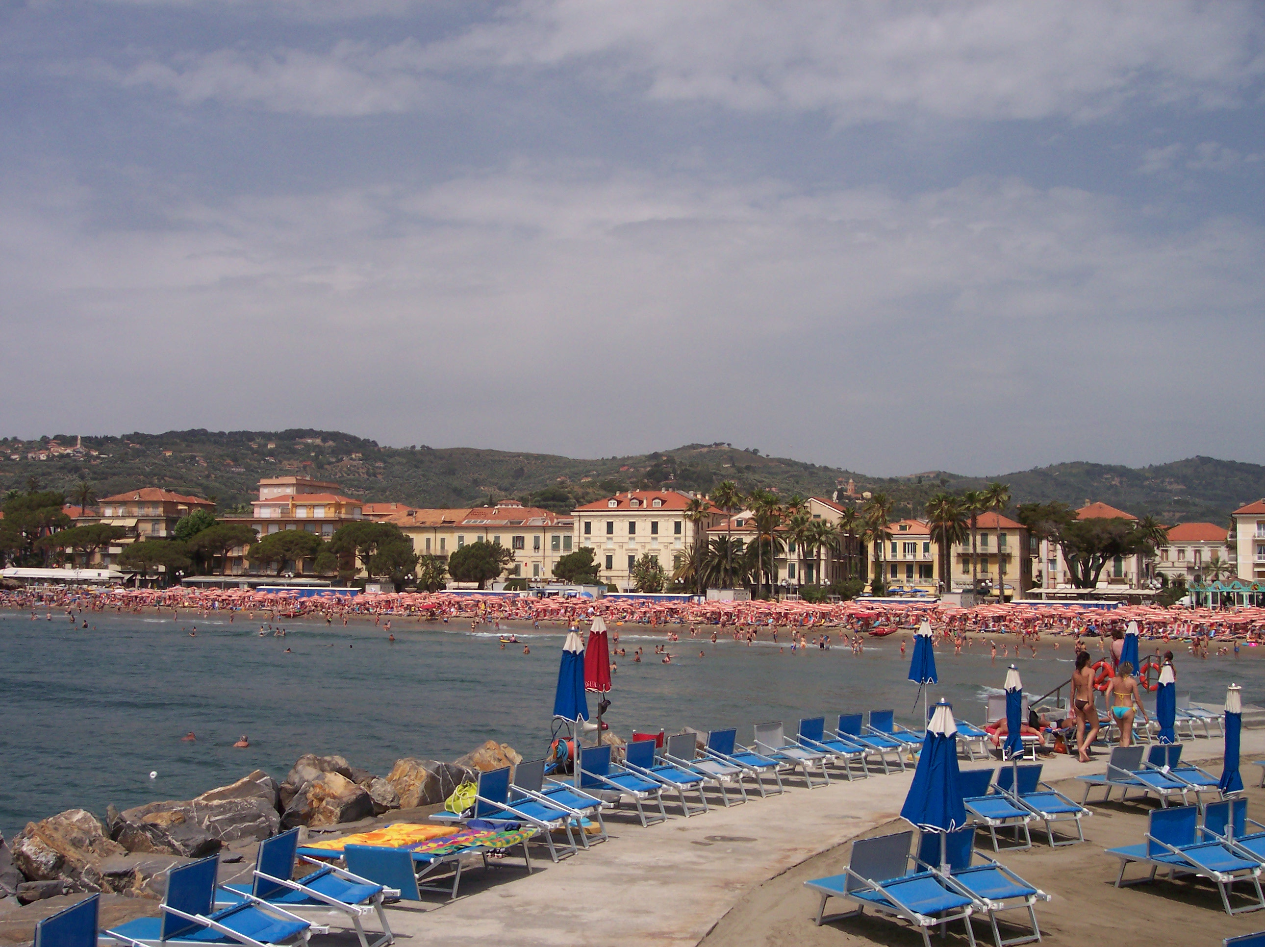 Diano Marina, commune in the province of Imperia, Italy